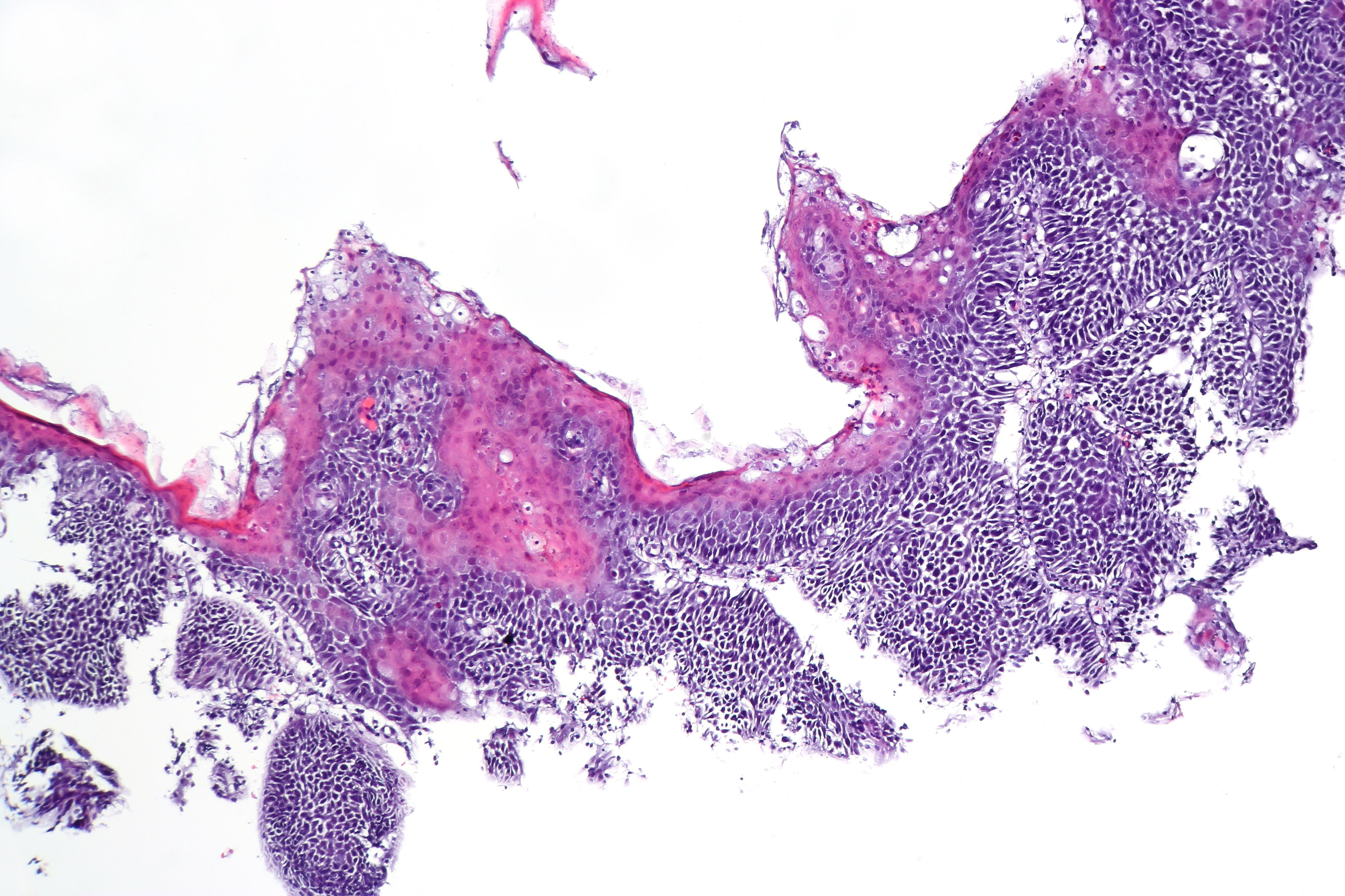 Esophageal leukoplakia with keratinization of the surface epithelium, basal hyperplasia and bacterial colonization. H&E Stain.